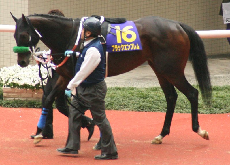 ブラックエンブレム (Black Emblem wearing a shadow roll noseband)